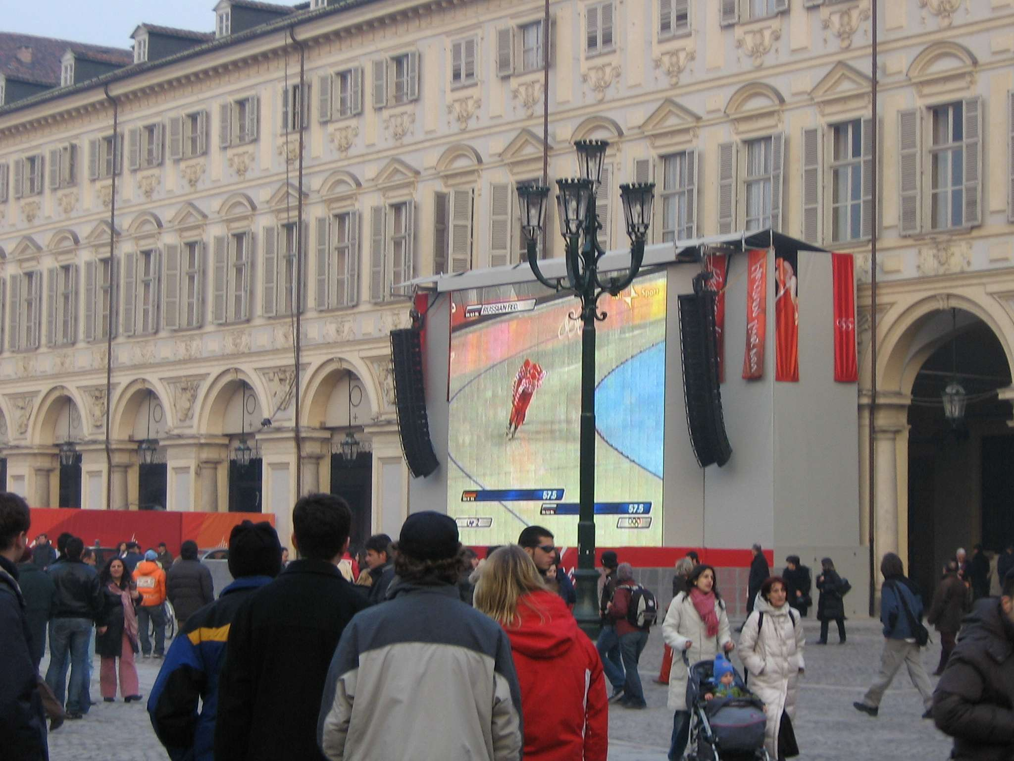 People watching a race on screen in Piazza San Carlo, Turin, February 16 2006. Photo by Dzag.